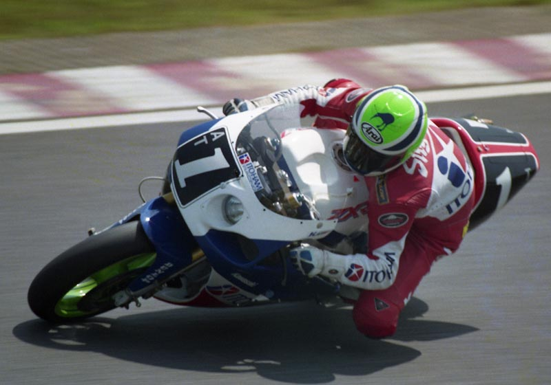 Aaron Slight at 1993 Suzuka 8hours